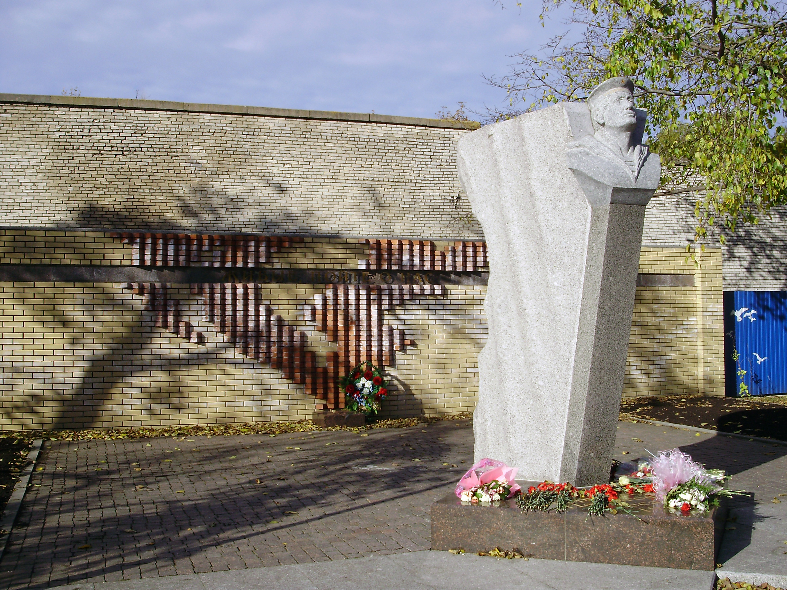 The Monument for Petergofsky Assault in Kronstadt.